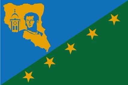 Flag of Sucre Municipality, Caracas, Venezuela.